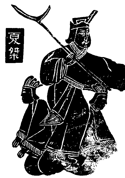 Clean version of File:Xiajie.jpg. Jie (桀), last ruler of Xia-dynasty sitting on two women and wearing a halberd on his shoulder. Rubbing of relief from the Wu-family Shrines, Jiaxiang, Shandong, China, around 150 CE.